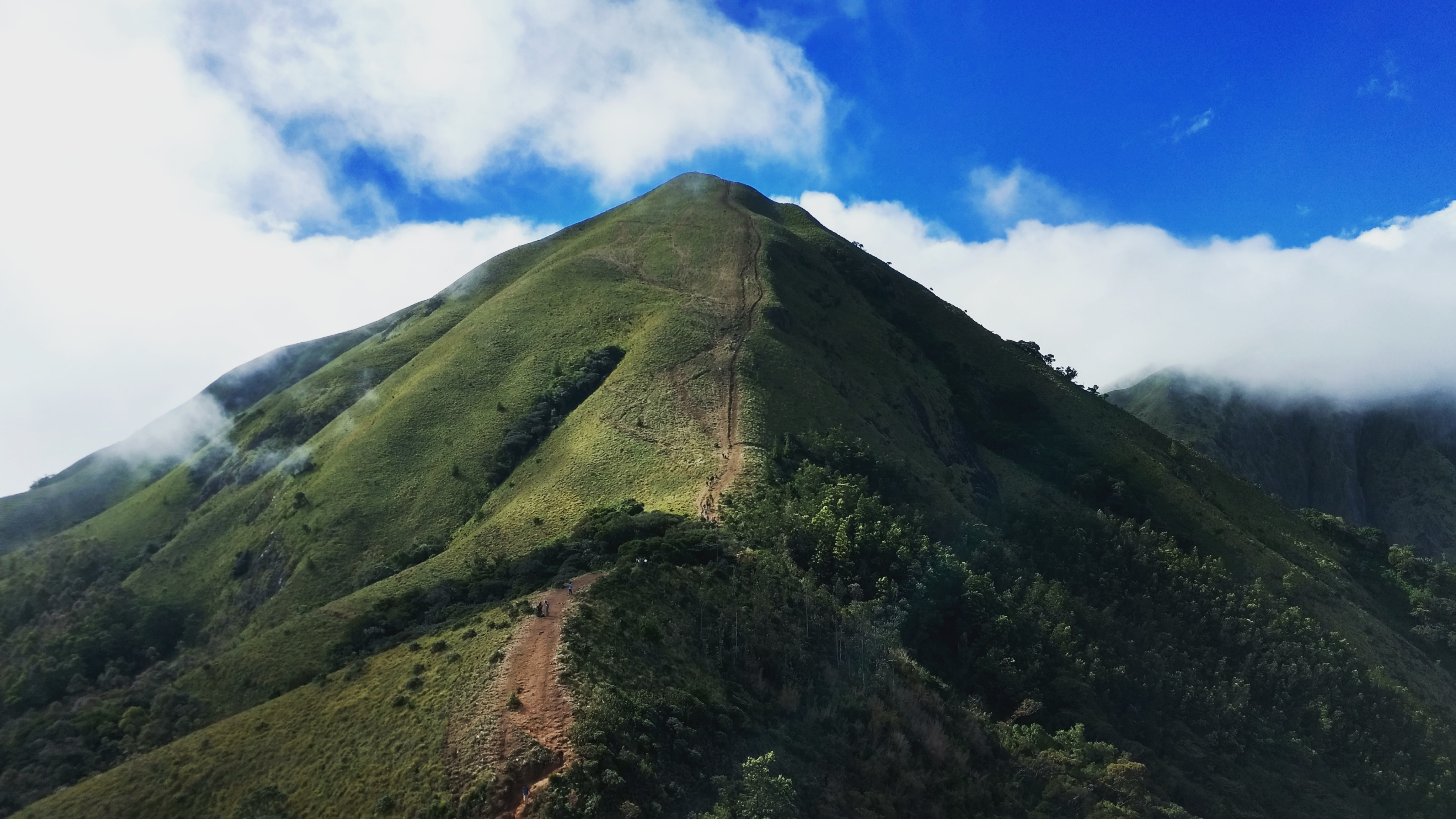 Clouds and hills